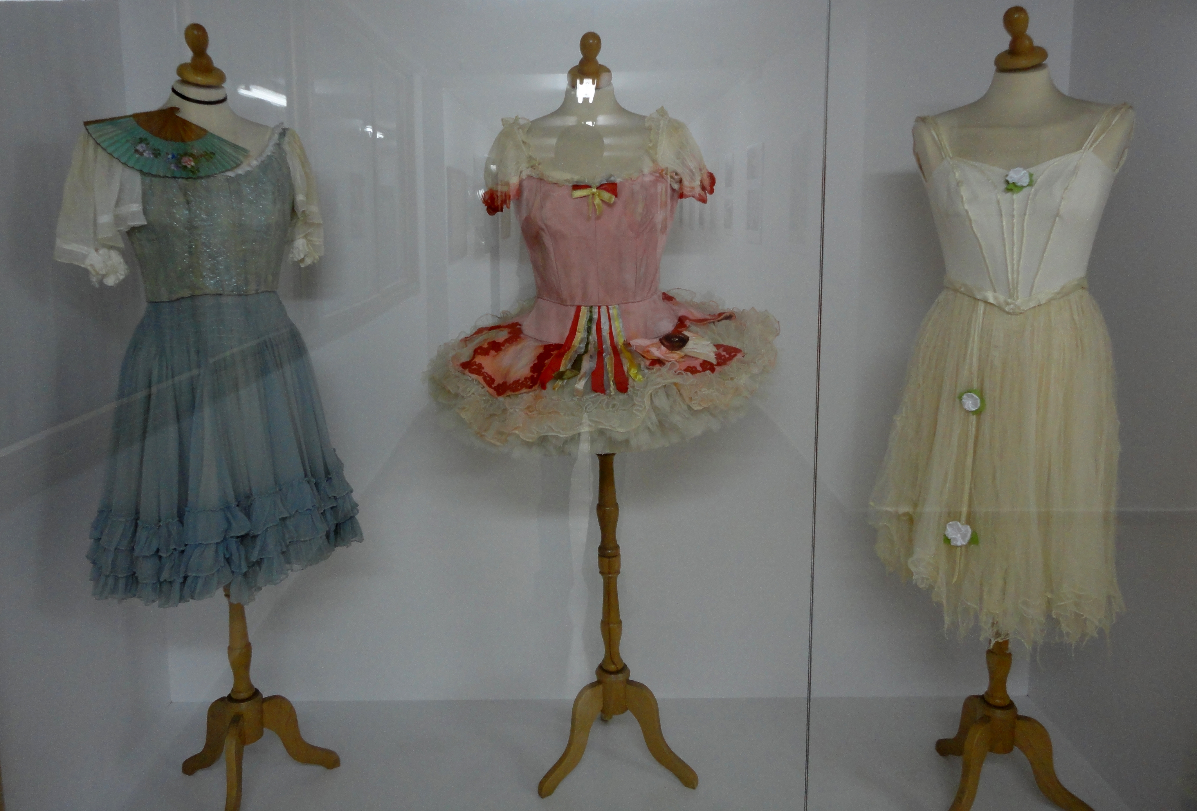 .costum by Barbara Karinska for the Serge Denham's Ballet Rousse from left - Coppelia act 2, coppelia act 1 and Gisele act 2. display at .Beit Ariela, Tel Aviv-Yaffo